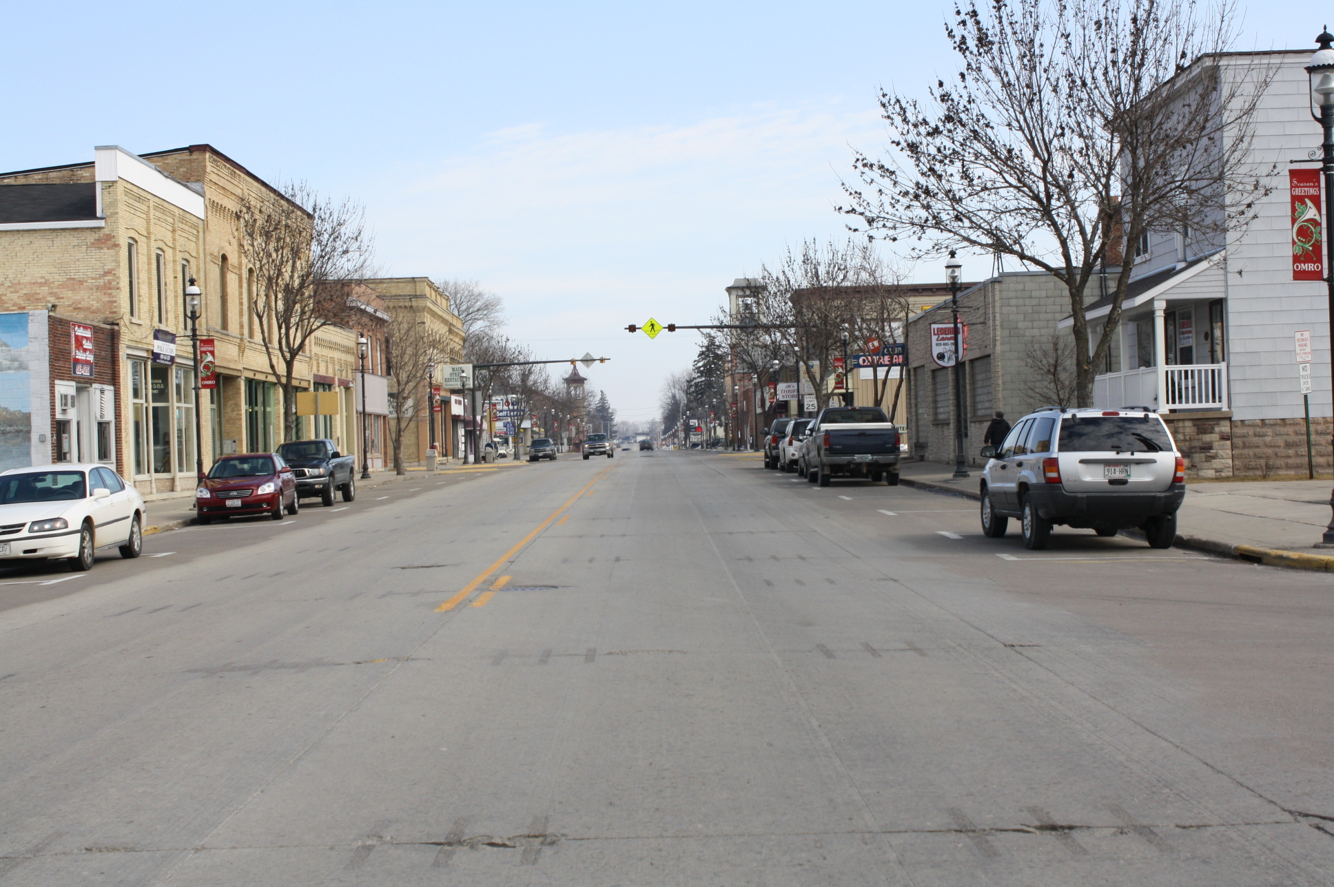 The Omro Downtown Historic District in Omro, Wisconsin along Wisconsin Highway 116 / Wisconsin Highway 21. It is listed on the National Register of Historic Places.